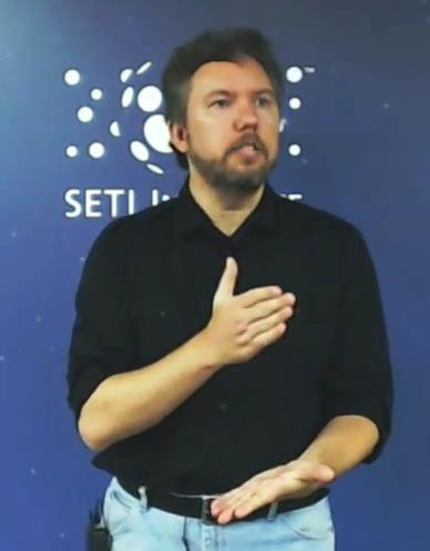 Stephen Kane presenting a talk on the topic of planetary habitability at the Search for Extraterrestrial Intelligence (SETI) in Mountain View.